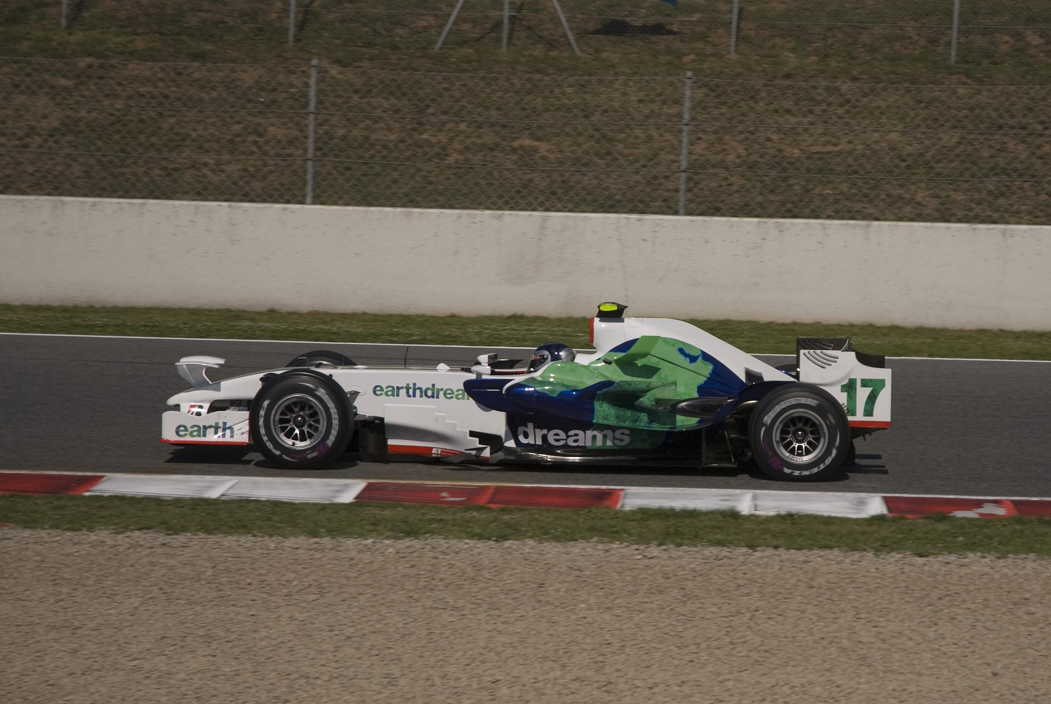 Rubens Barrichello driving for Honda F1 at the 2008 Spanish Grand Prix.